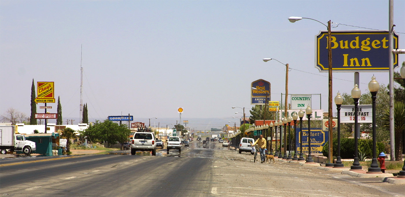 Main highway through Van Horn, Texas taken by myself in April 2004.